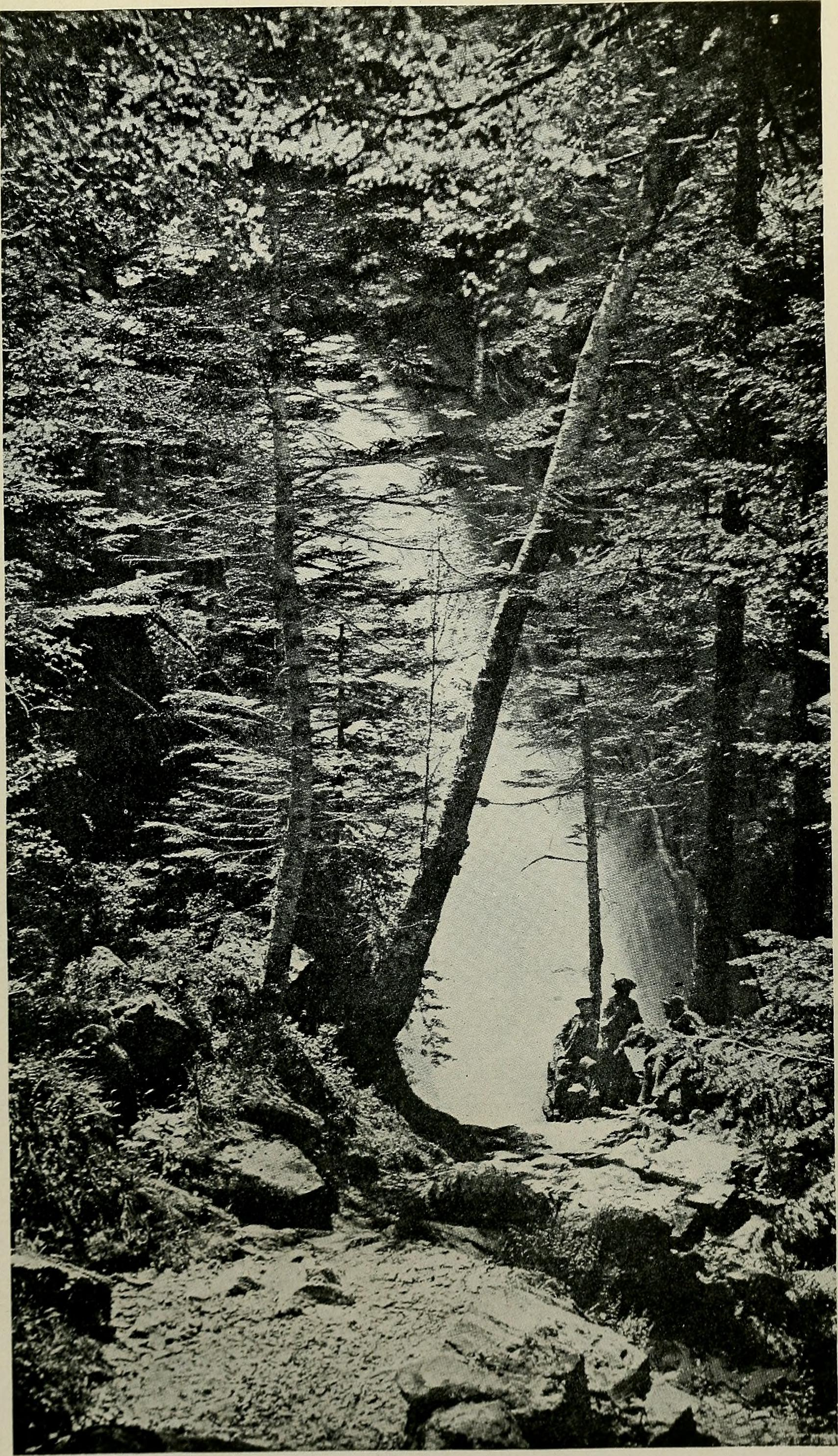 Title: Springs of health in Great Britain and France Year: 1917 (1910s) Authors: Cunard Steamship Company, ltd Atlas Advertising Agency, inc., New York Subjects: Health Resorts Publisher: (New York, Gaines Thurman, inc.) Text Appearing Before Image: VIKWS OF VALS T UCHON (Haute Garonne). Altitude 2100 feet.•^^ There are nearly fifty springs varying in tempera-ture from 61 to 150 degrees F. TREATMENT—Internal and external. RECOMMENDED in cases of specific diseases, tuber-culosis, after-effects of grippe, typhoid fever, diphtheria,arthritis, affections of the respiratory organs, nasal ca-tarrh, laryngitis, stomach troubles, nervous diseases, etc. SEASON—From the 1st of June to the 1st of October. Magnificent scenery, beautiful promenades, automo-biles, carriages, horses. Daily concerts and all sorts of attractions. A funicular Railway runs to the Plateau of Superbag-neres where one of the most beautiful panoramas in theworld can be seen. Good hotels. Distance from Paris 615 miles via Paris, Orleans 85Midi Ry. 38 Text Appearing After Image: FROM THE SURROUNDINGS OF LUCHON T UXEUIL (Haute Saone) is situated at the foot of the-^ Vosges Mountains, at an altitude of 980 feet. This resort dates its origin back to a monastery foundedby Colomban, an Irish monk, towards the end of thesixth century. A goodly portion of the original monas-tery buildings are still in existence. There are fifteen springs, the property of the FrenchGovernment, the waters containing salt, iron, arsenic andmanganese and are radio-active. TREATMENT—Mainly external. RECOMMENDED in cases of rheumatism, arthritis,anaemia and nervous diseases; womens diseases. SEASON—From the 1st of June to the 15th of Sep-tember. Several hotels, furnished apartment houses, beautifulpark and forests, also casino. Distance from Paris 304 miles via Eastern Railway ofFrance. 40